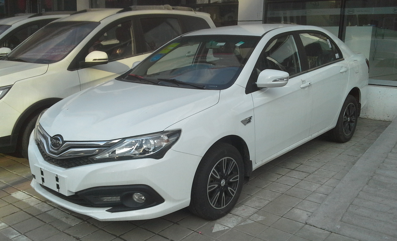 BYD F3 facelift II photographed in Changchun, Jilin province, China.